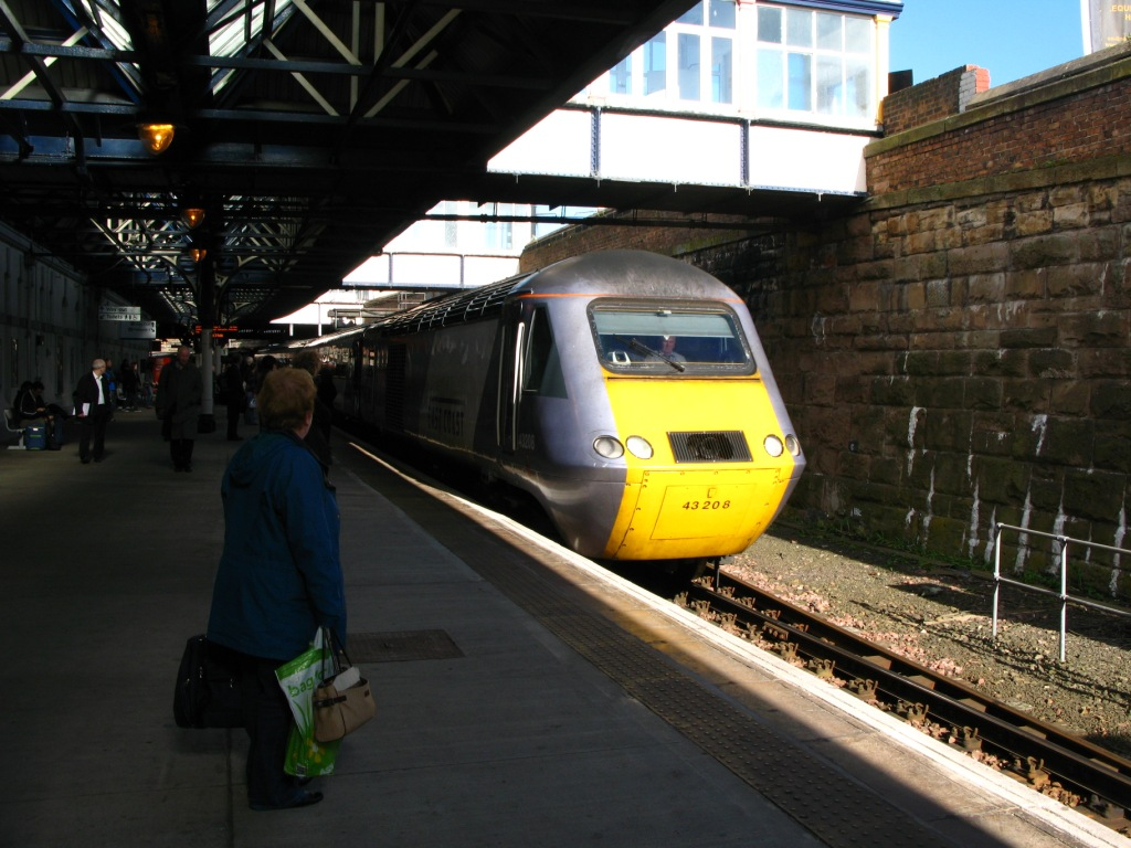 Power car 43208 leads the afternoon Aberdeen to London service into Dundee station.